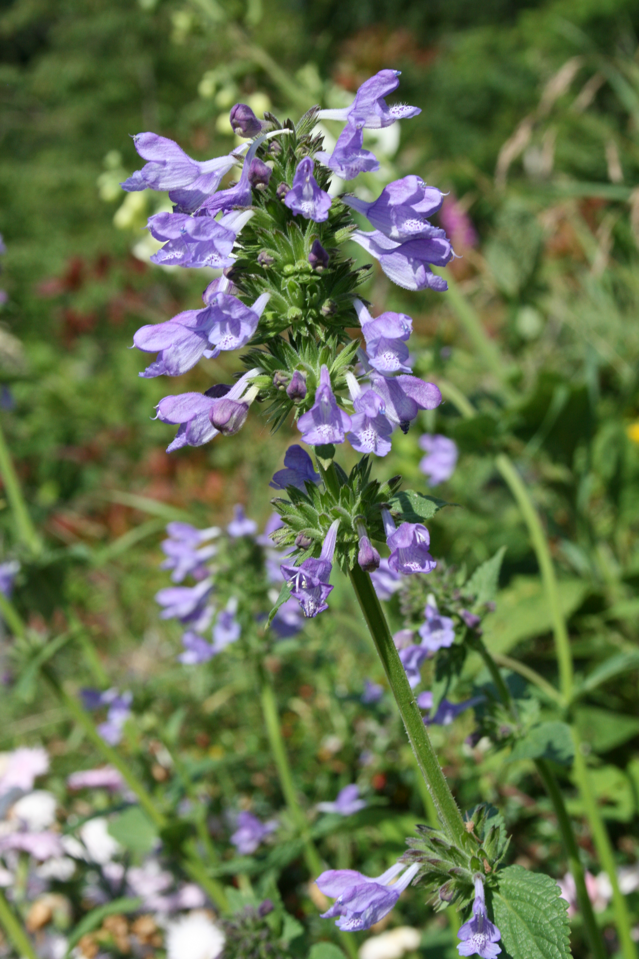 Nepeta wilsonii